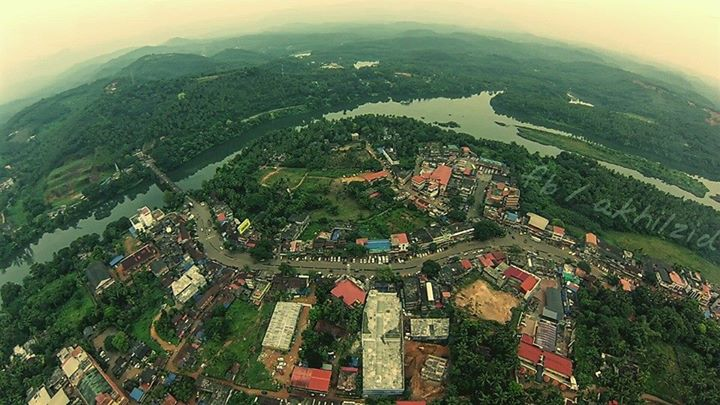 HeliCam View of Iritty took by Akhil Puthusheery